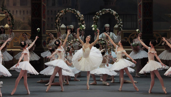 The ballet dancers